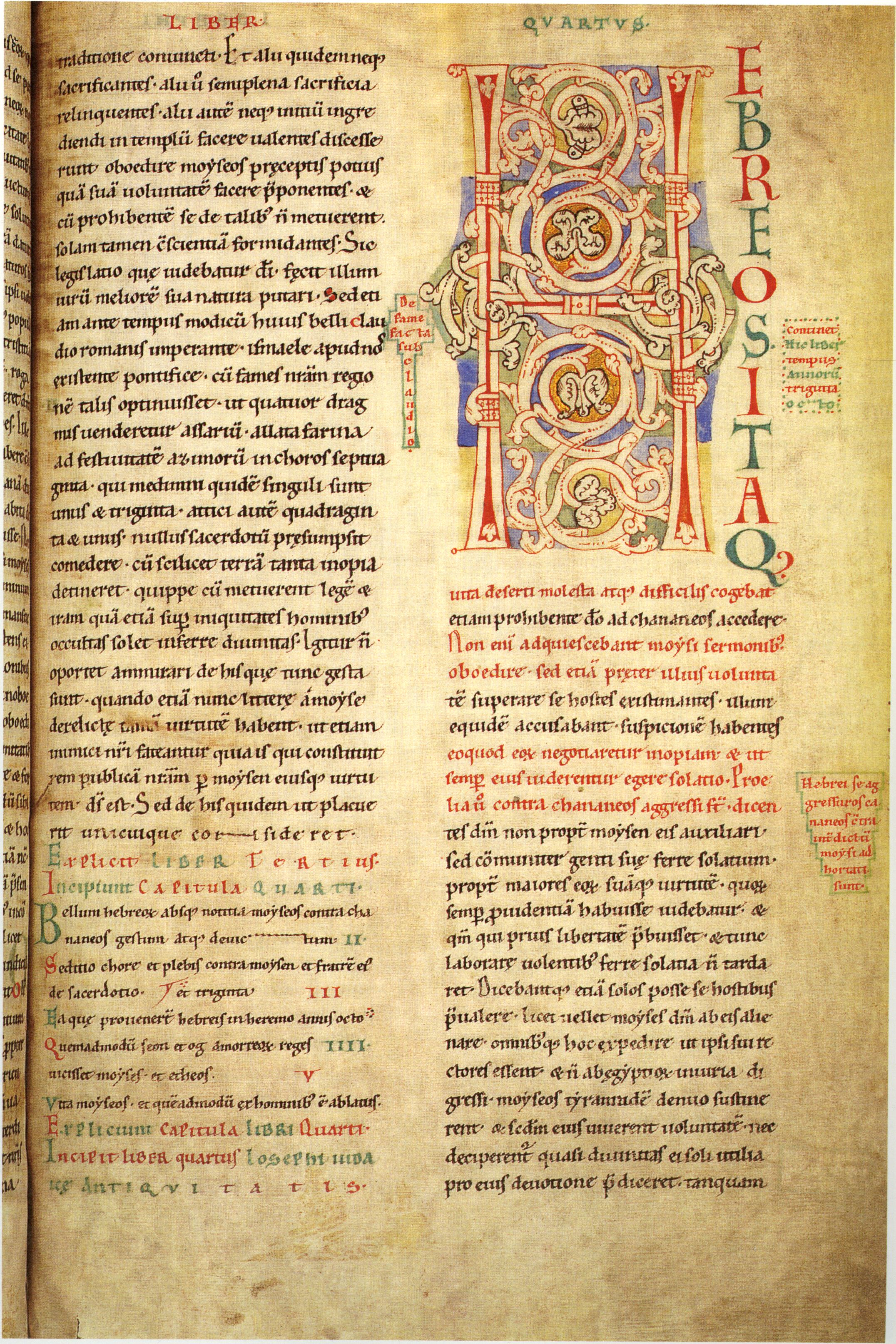 Josephus, Antiquitates Iudaicae in Latin translation, beginning of Book 4, in ms. Cologne, Dombibliothek, 162, fol. 41r.